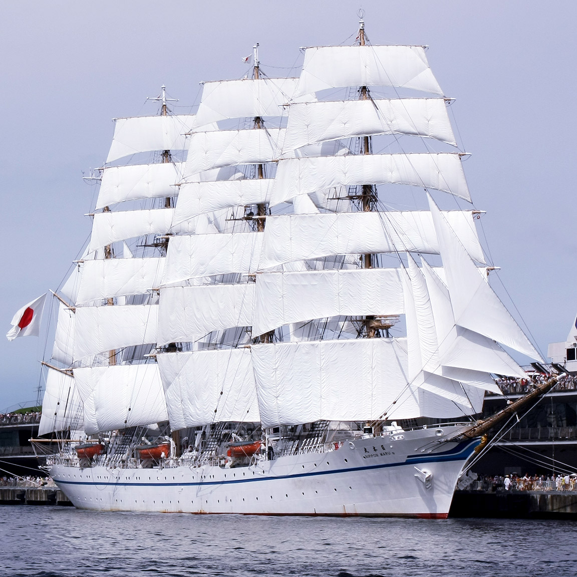 Japanese training tall ship Nippon Maru II off the Port of Yokohama.